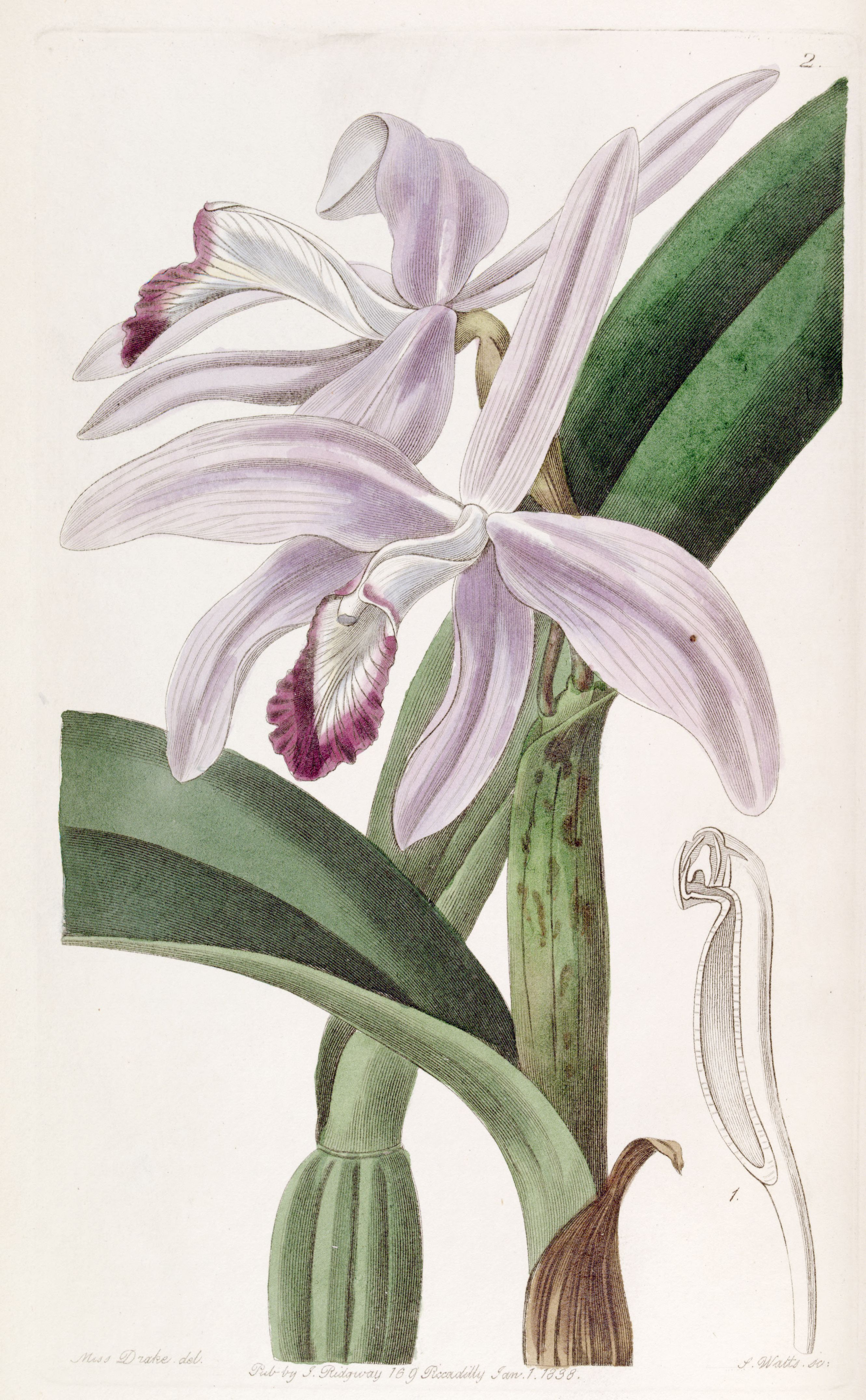 Sophronitis perrinii (as syn. Cattleya perrinii)